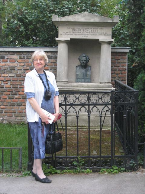 Musicologist and Schubert Expert Dr Rita Steblin at the Grave of Franz Schubert in Währing, Vienna, June 2012